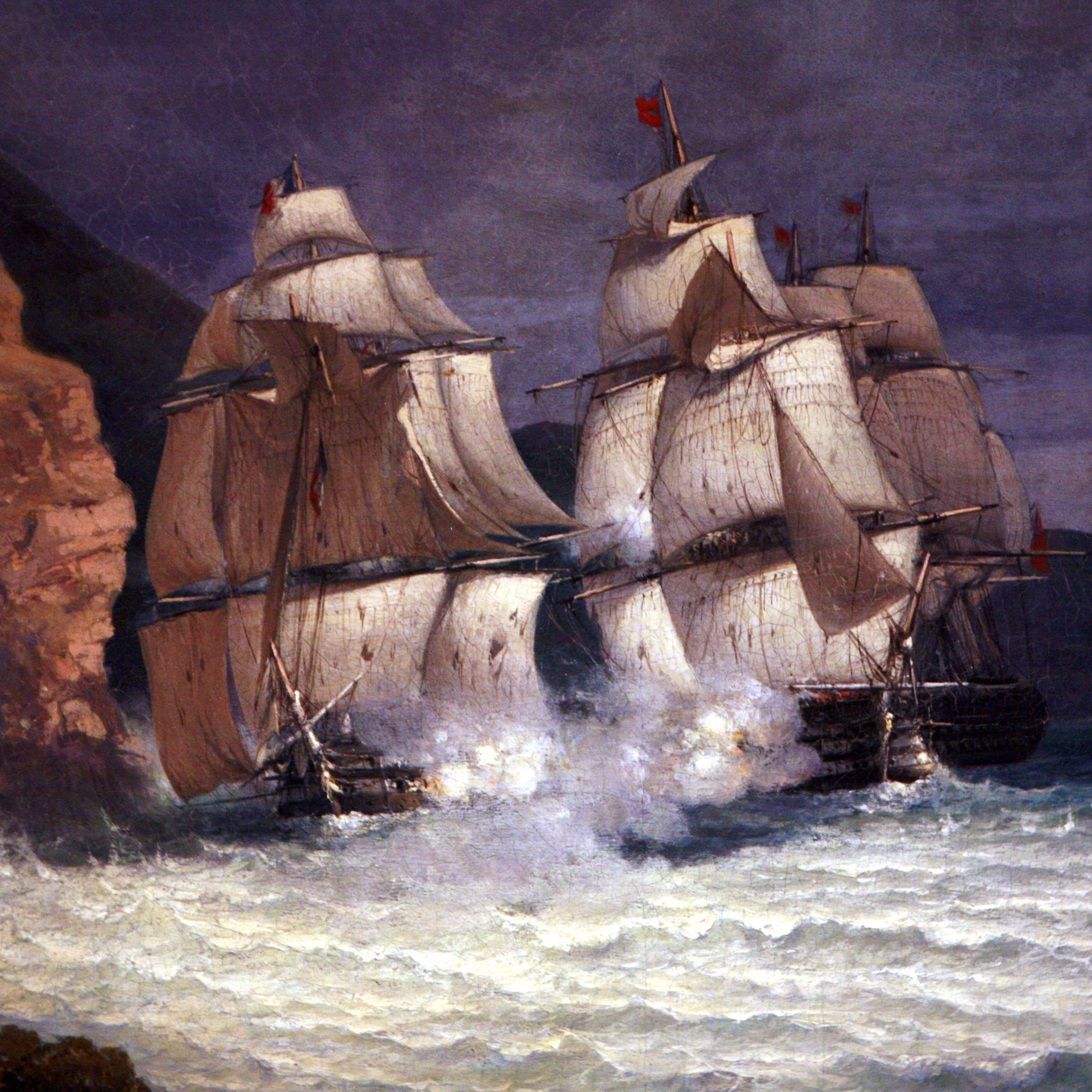 Fight of the Romulus, on display at Toulon Naval museum. Awarded a 2nd class medal at the Salon de Paris of 1848